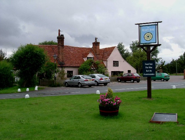 The Peldon Rose. Good Beer, Good Food, a real fire in winter all in a historic building. However duck your head to avoid low beams. A good stopping off point to wait till the tide recedes when the causeway to Mersea Island is flooded.